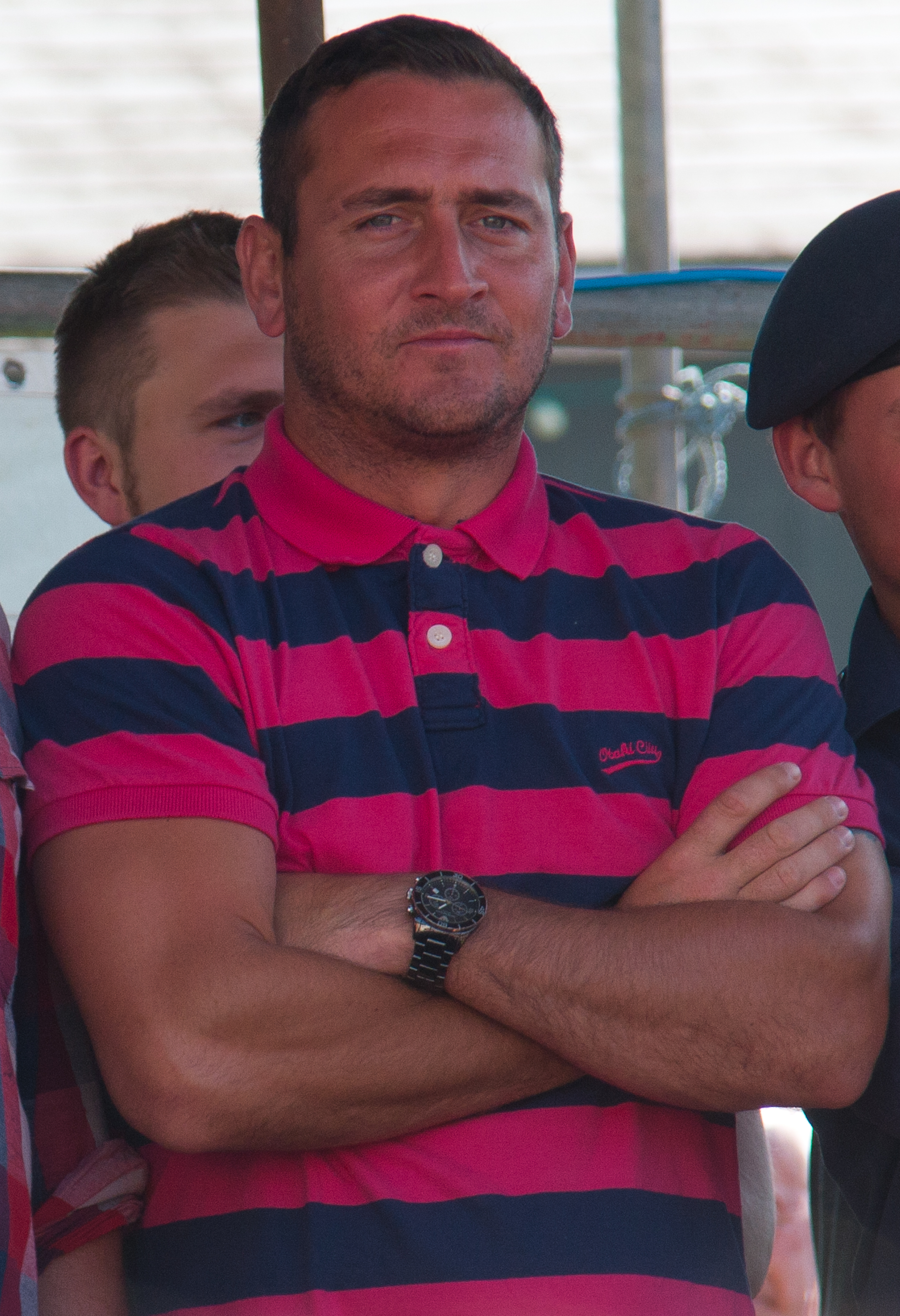 Will Mellor at Newent Onion Fayre 2012